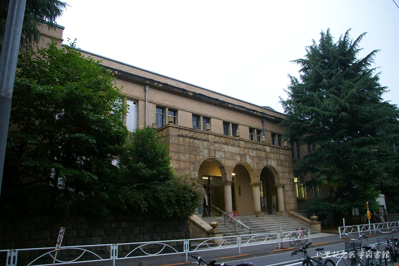 It was taken by 塾生 (talk) in May, 2009 in Tokyo.